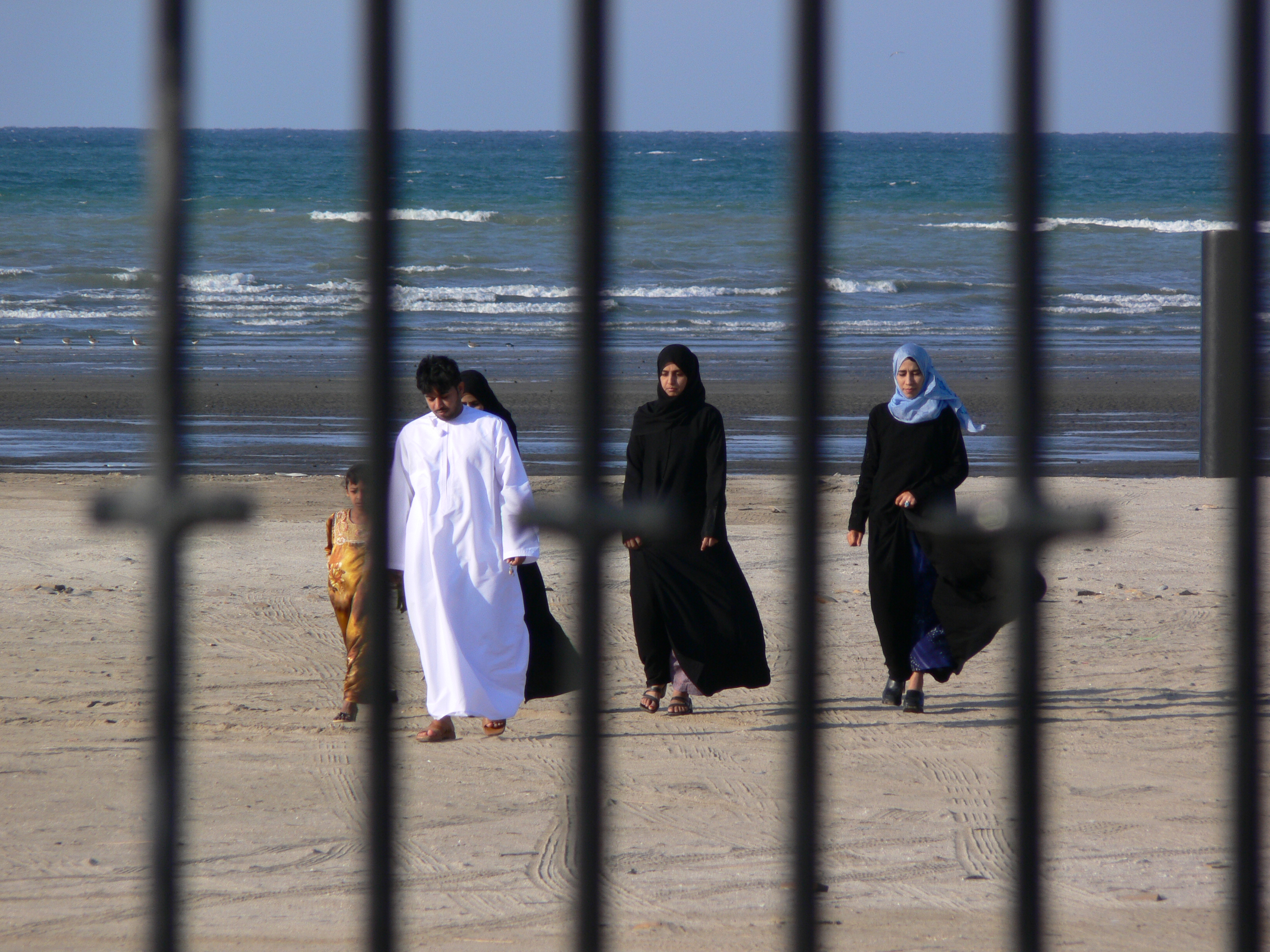 On the beach, Oman